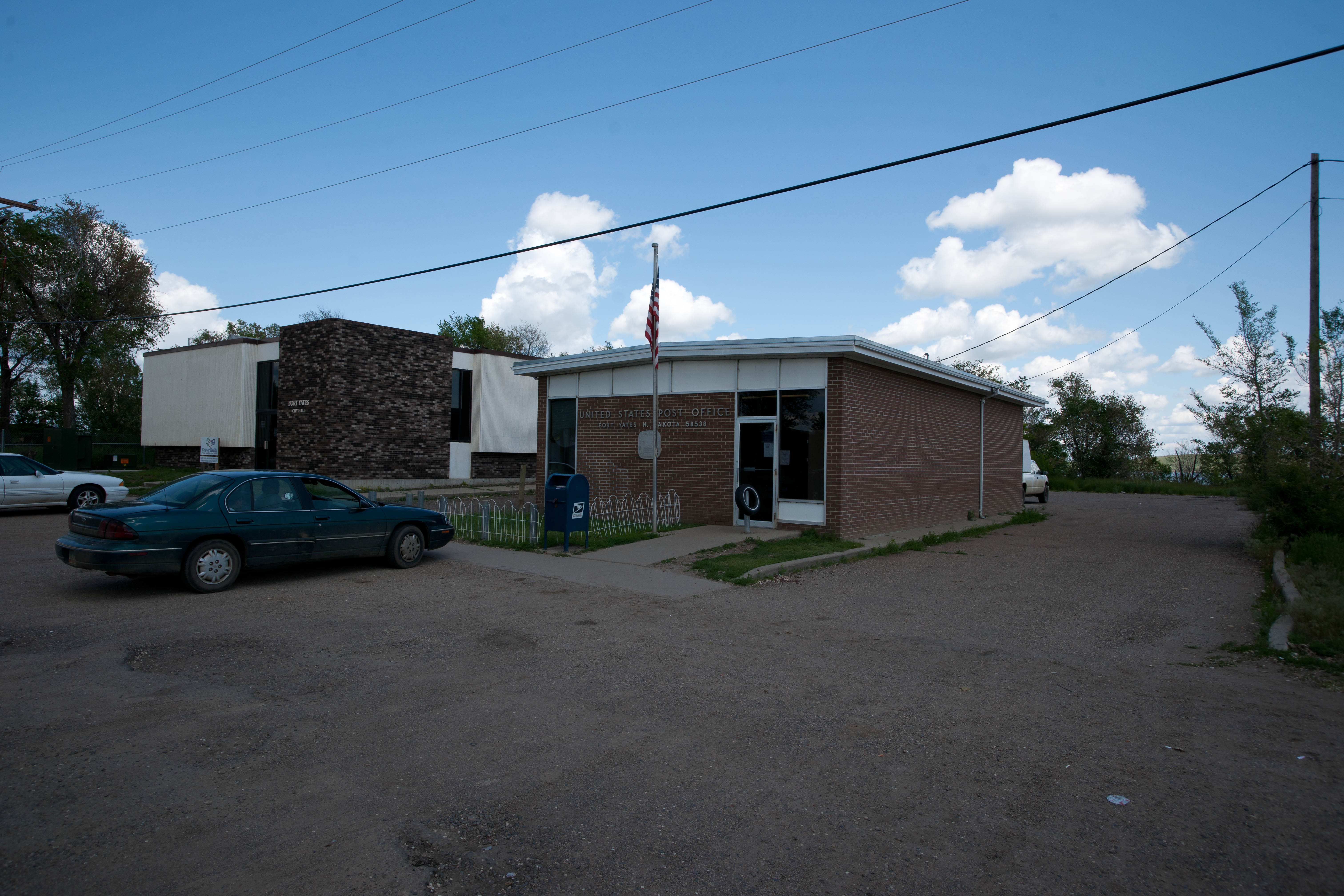 Post office in Fort Yates North Dakota